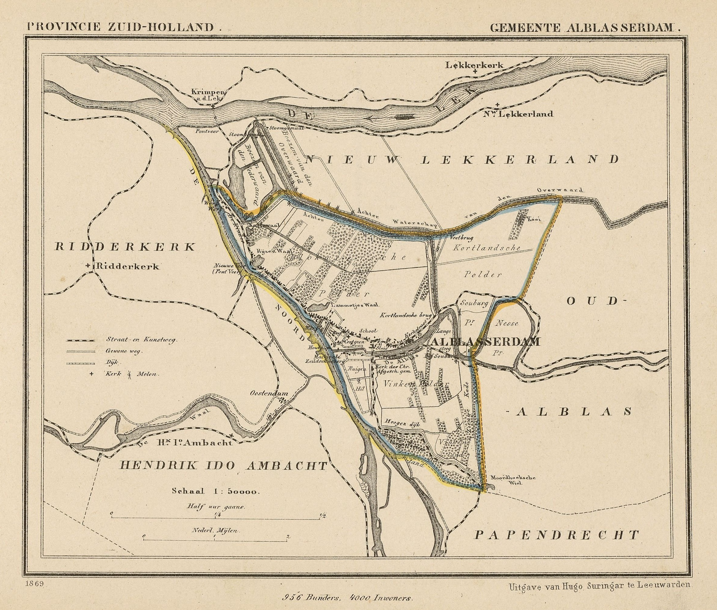 Map from 1869 of the municipality Alblasserdam (province South Holland, Netherlands). This municipality exists since the introduction of municipalities as a form of local government in the Netherlands (around 1812); its borders have remained virtually unchanged since then. Alblasserdam lies about 19 km southeast of Rotterdam.